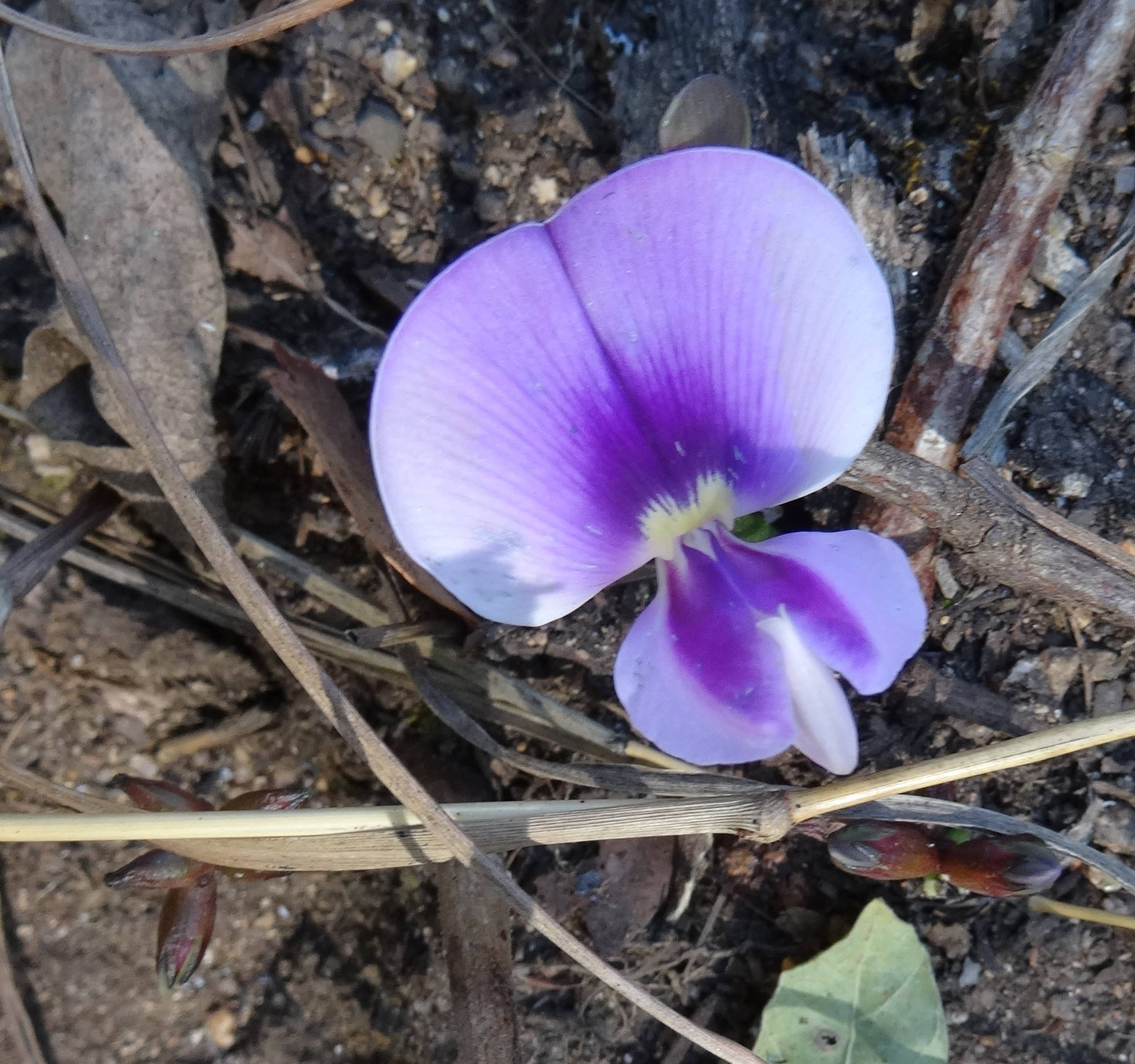 A very strange form of Vigna unguiculata (wild relative of the cowpea), because it flowers (from a rootstock?) without leaves or stems, in the form of a scape. Here on Mount Ribaue (about 800 m.a.s.) in Northern Mozambique. An adaptation to fire and/or drought?